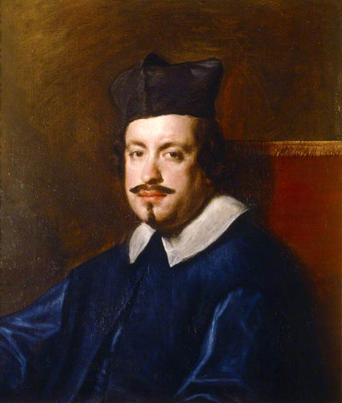 A reproduction of his portrait in the National Galery in London